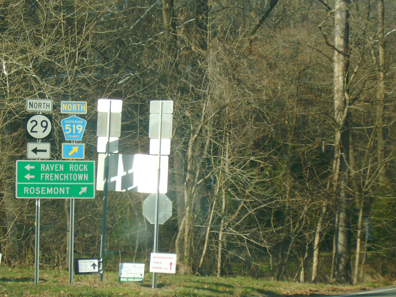 County Route 519 at its southern terminus at New Jersey Route 29 in Delaware Township, Hunterdon County. The route continues for 88 miles from this point.